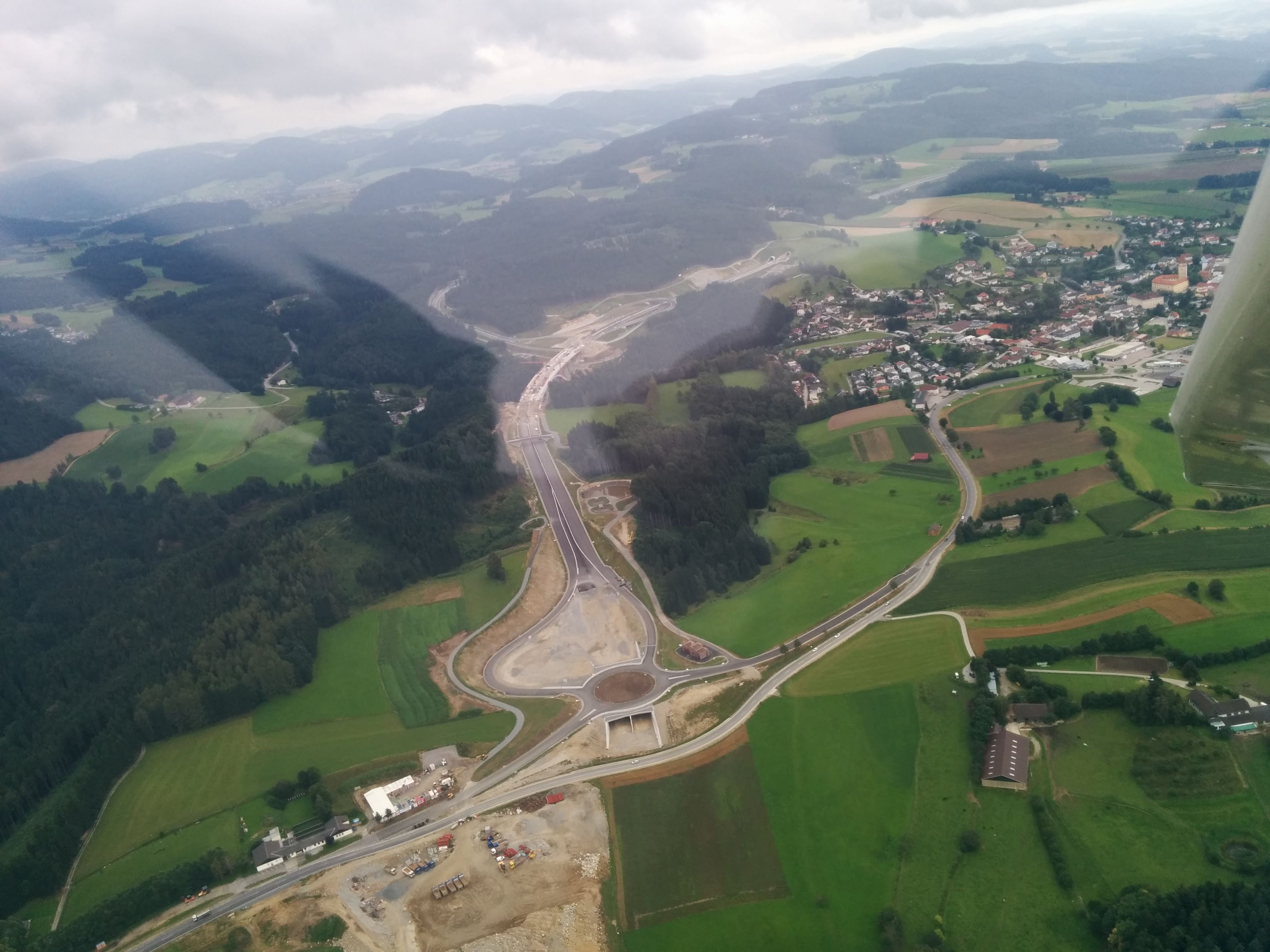 Highway Link "Freistadt Nord" under construction